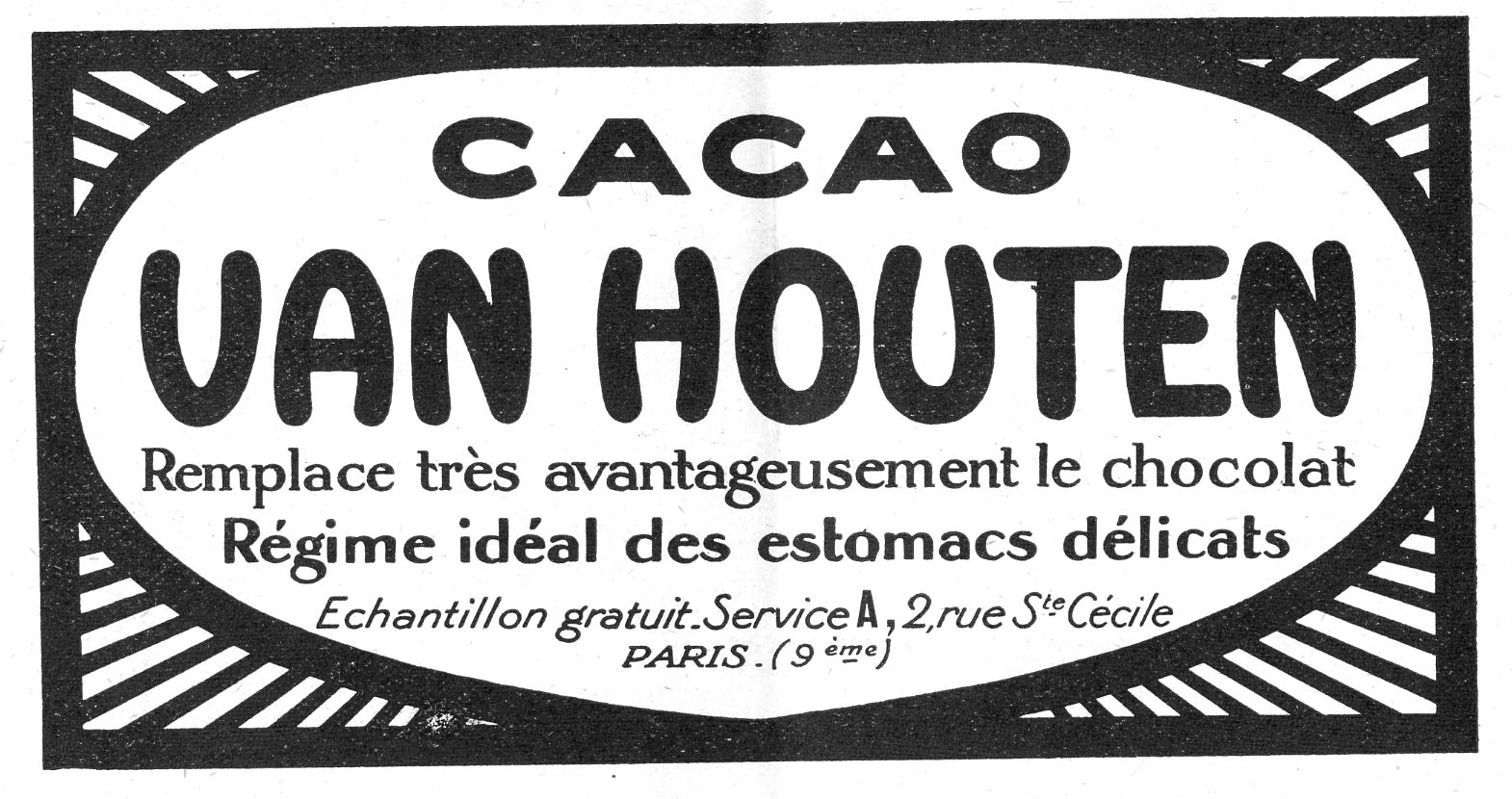 Van Houten advertisement of 1923